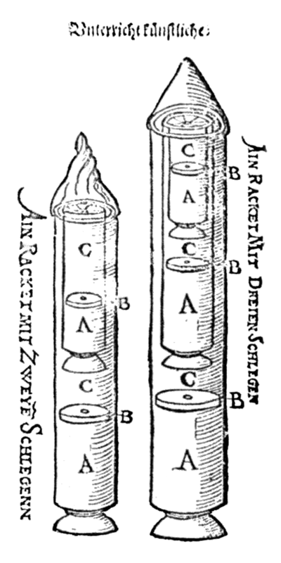 Diagram of multi-staged rocket by Johann Schmidlap. reproduced in Doru Todericiu, Raketentechnik im 16. Jahrhundert, Technikgeschichte 34.2 (1967), 97–114 (p. 112) [online copy at Schmidlap's book first appeared in 1561 and was reprinted in 1590 and 1591. Todericiu (1967) seems to be aware only of the 1591 edition, so the image is presumably taken from that one, but it was likely present in identical or similar form in the first edition of 1561. Image caption: Ain Racket mit Zweyen Schlegenn / Ain Racket Mit Dreien Schlegen